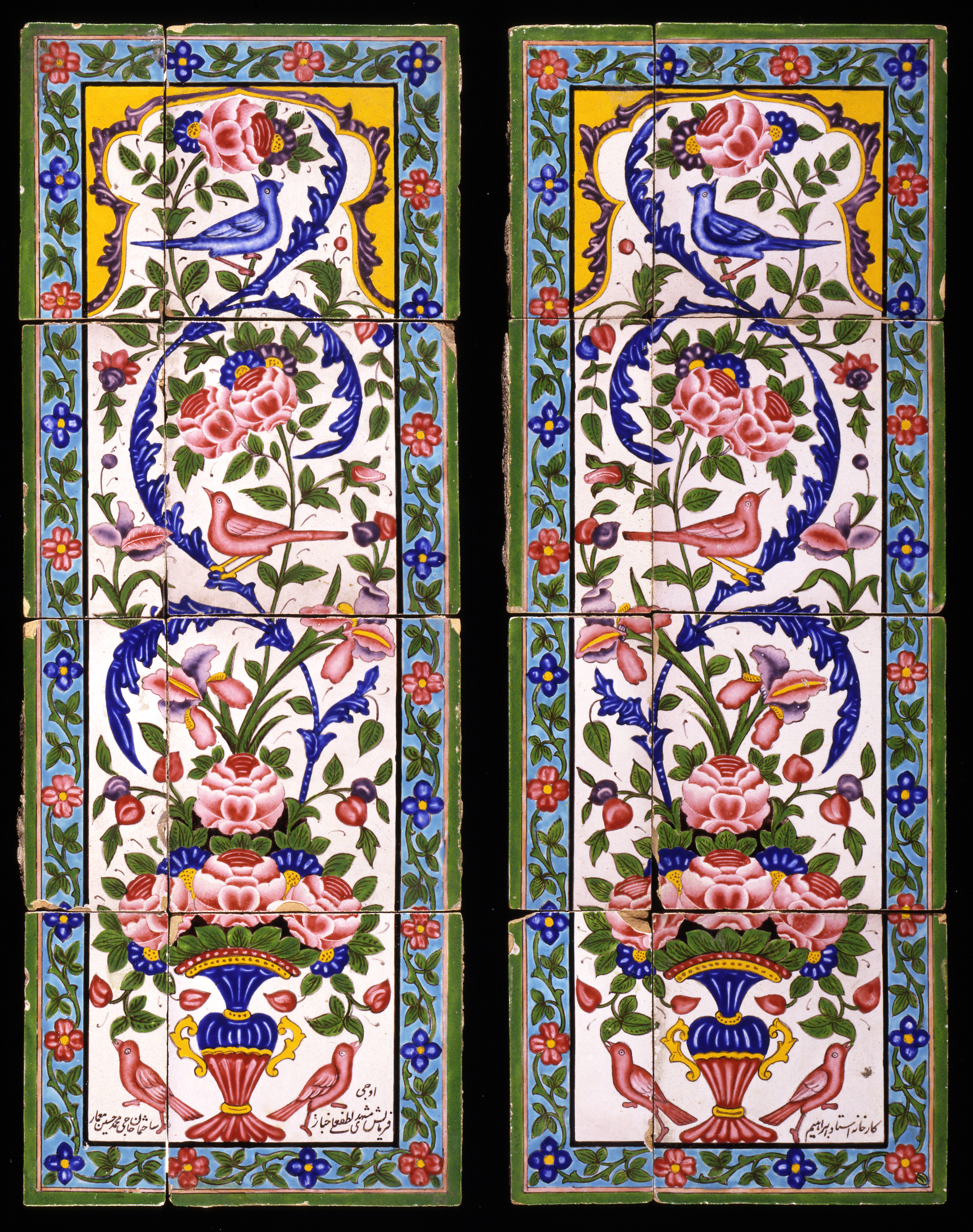 Two panels of earthenware tiles painted with polychrome glazes over a white glaze. Iran; 19th century first half. Each panel: H: 81.5; W: 30.5 cm